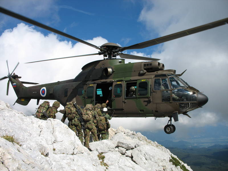 Slovenian helicopter AS AL 532 Cougar during military exercise